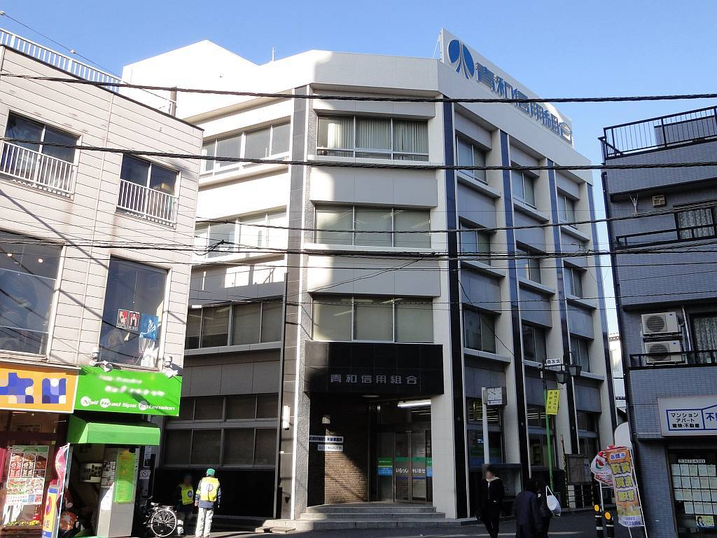 seiwa credit cooperative